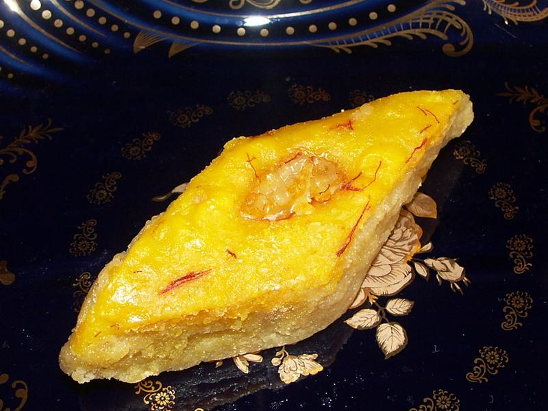 Ganja variation of Azerbaijani pahlava.